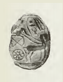 Picture of a scarab of a king Aakheperre depicted on a war chariot. Flinders Petrie believed that this king is Aakheperre Shoshenq V of the 22nd dynasty, Third Intermediate Period.